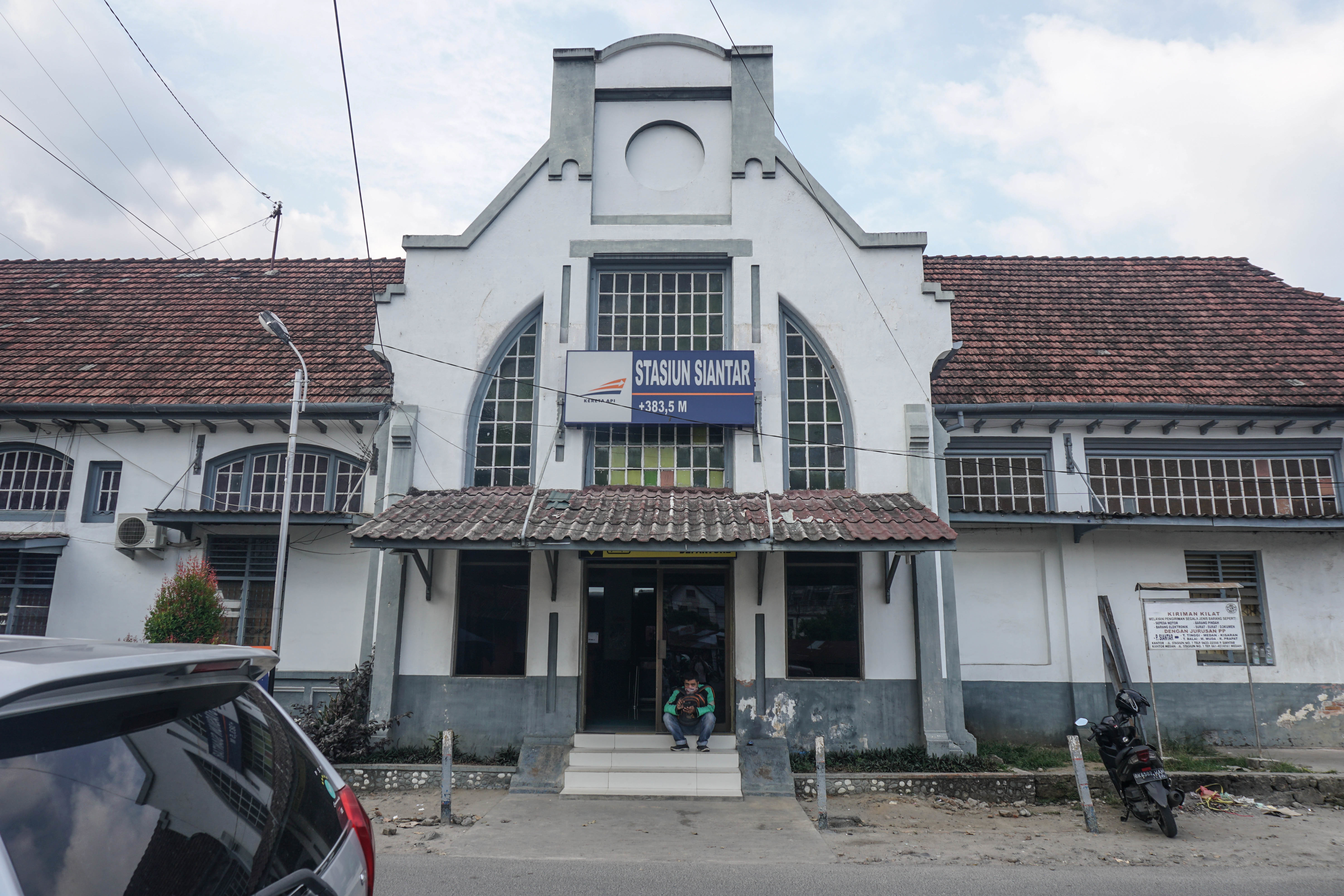 Siantar Station Building 2020